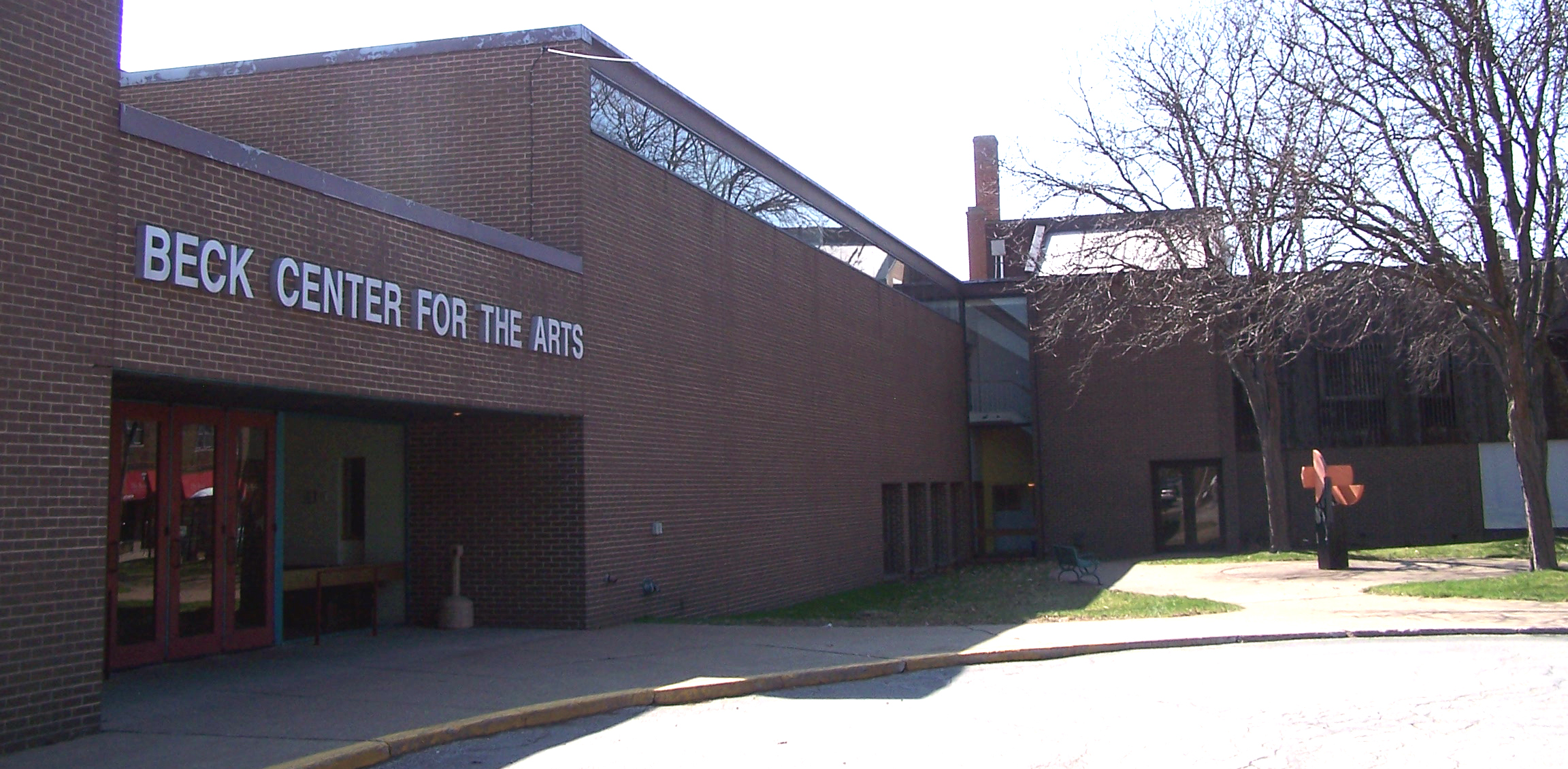 Beck Center for the Arts, in Lakewood, Ohio, United States.